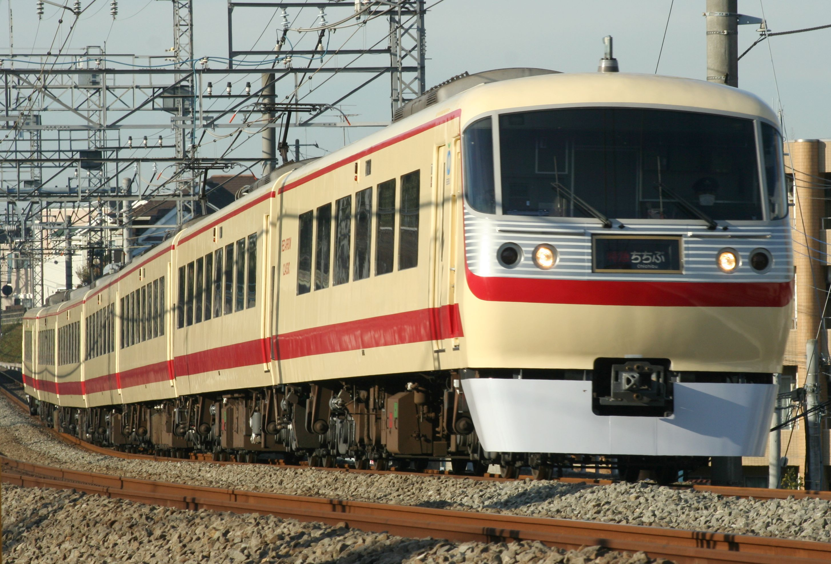 Seibu Railway 10000 series EMU set 10105 in "Red Arrow Classic" livery approaching Nishi-Tokorozawa Station on a Chichibu limited express service